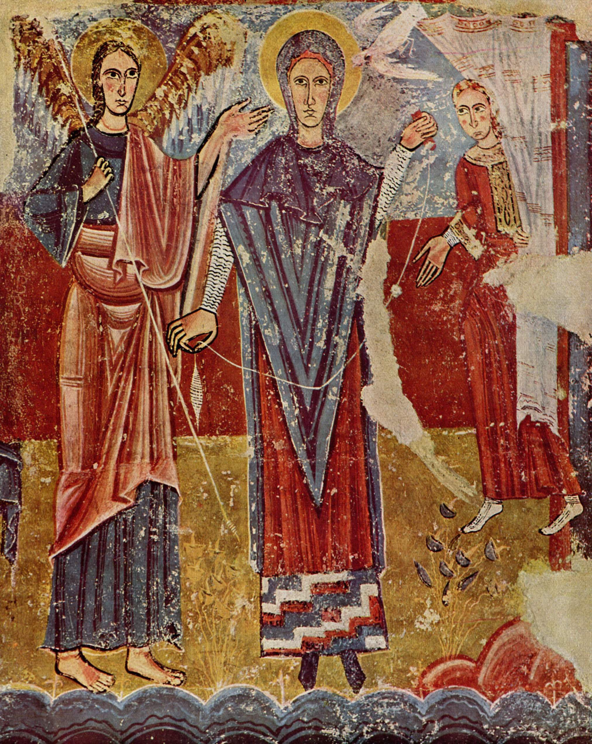 Detail of the Annunciation.